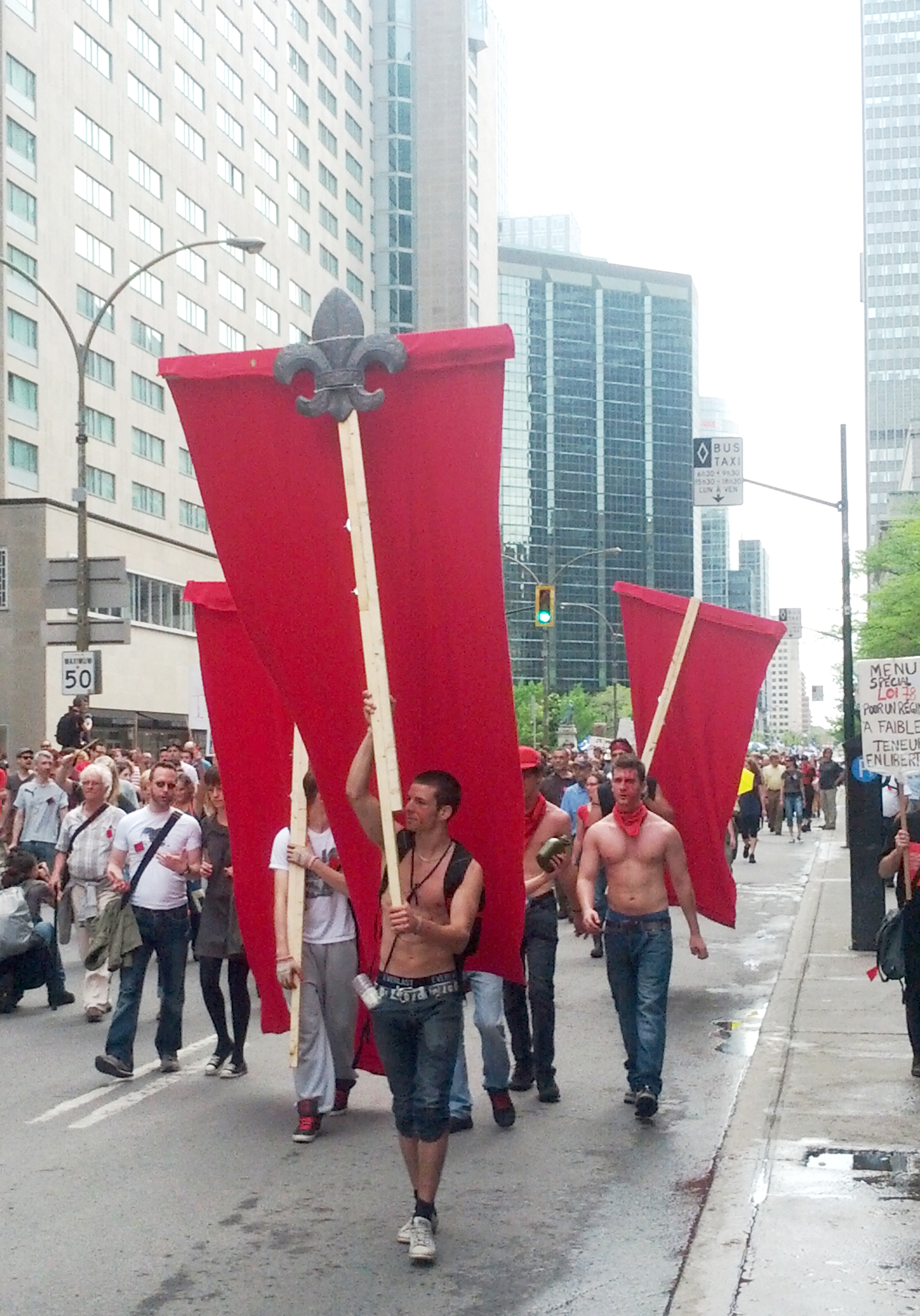 Protest in Montreal, Quebec, against Bill 78. 22 May 2012.